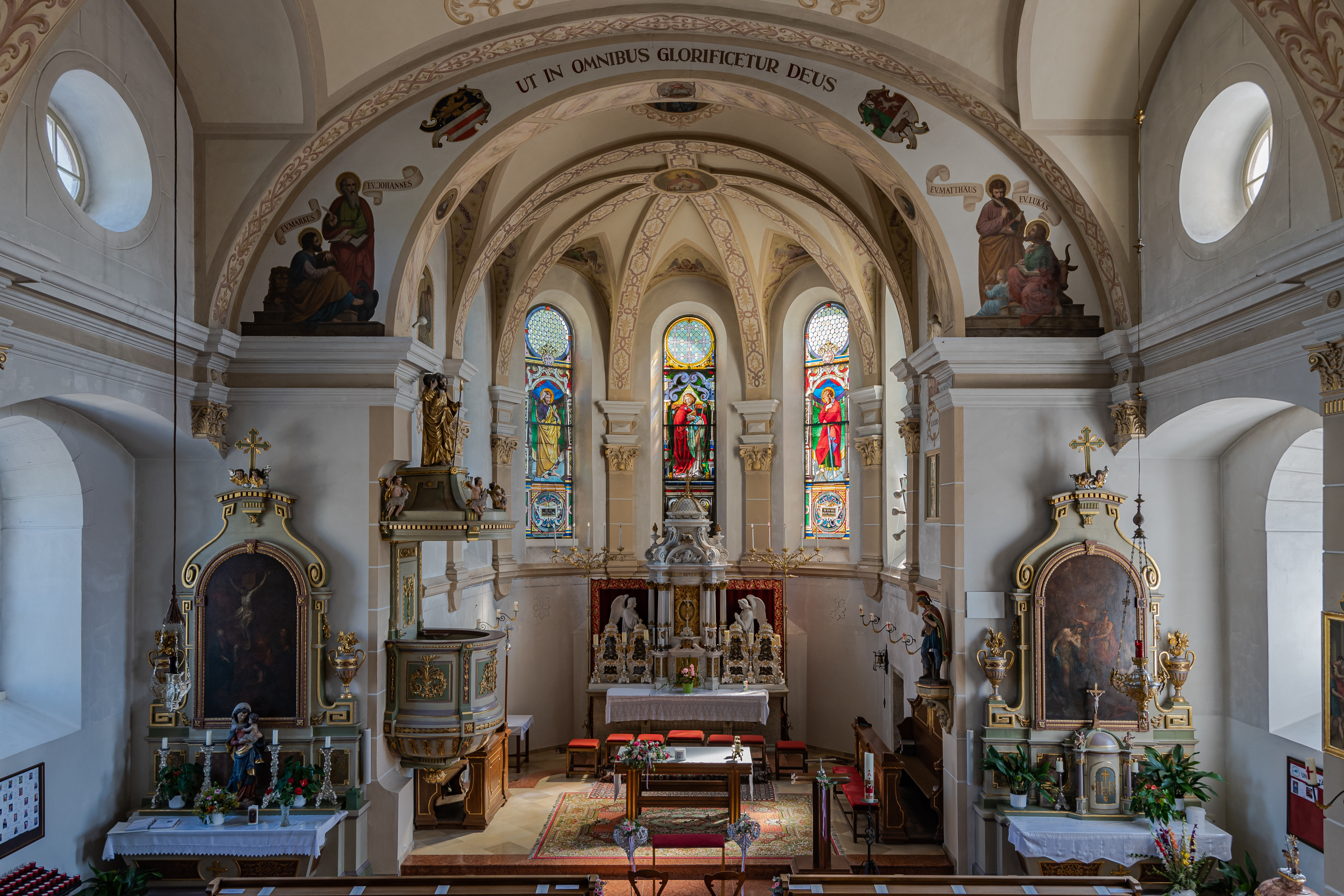 The high altar of the Catholic parish church hl. Jakob in Buchkirchen was erected in 1893. The classical side altars and the pulpit are from the 18th century. The pictures of the side altars were painted by Martin Johann Schmidt in 1798.